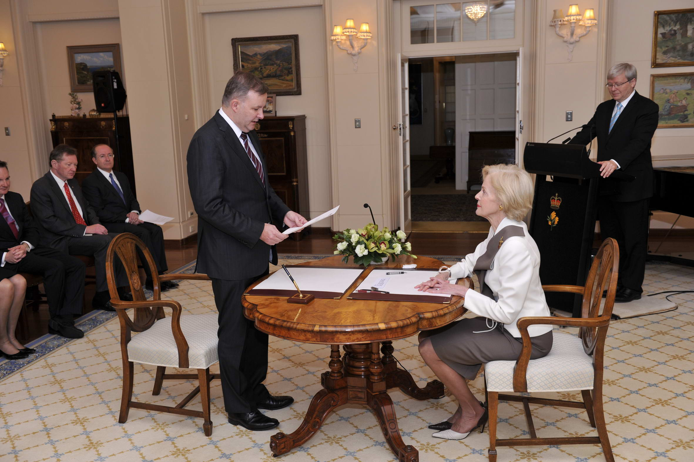 The Governor-General of Australia Quentin Bryce issues the Instruments of Appointment and Affirmations of Office to the newly appointed Minister for Infrastructure and Transport and Minister for Regional Australia and Local Government, the Honourable Anthony Albanese MP.